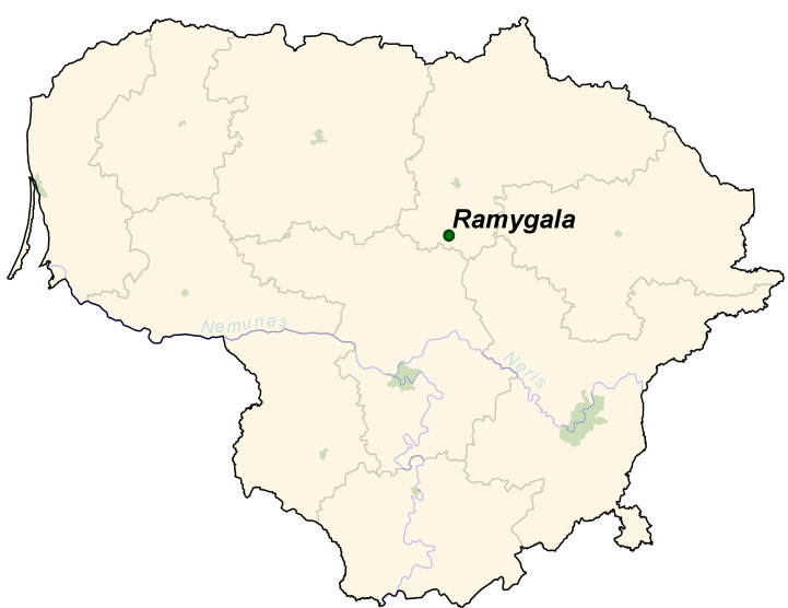 Ramygala on the map of Lithuania